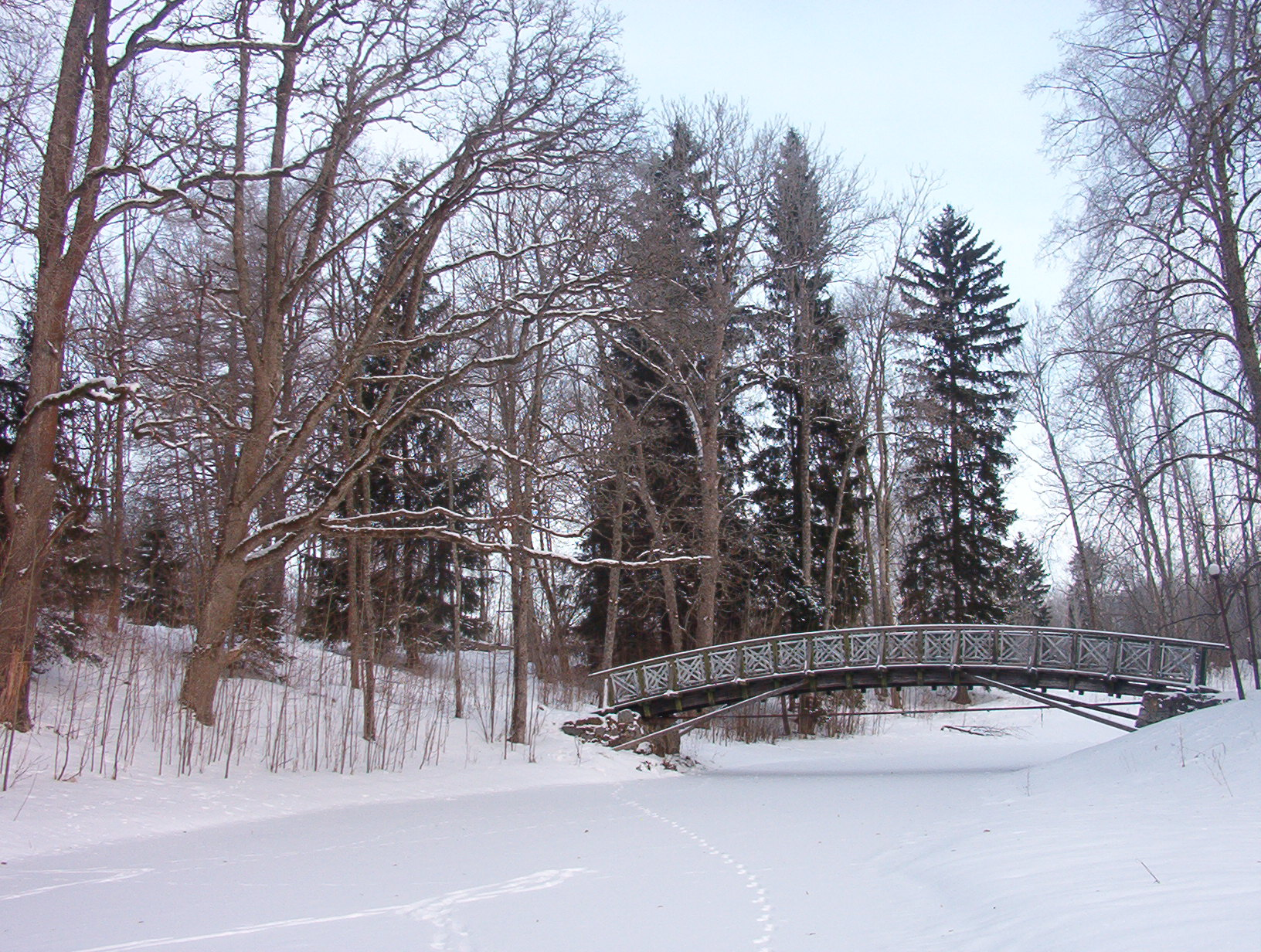 Pirgu manor park